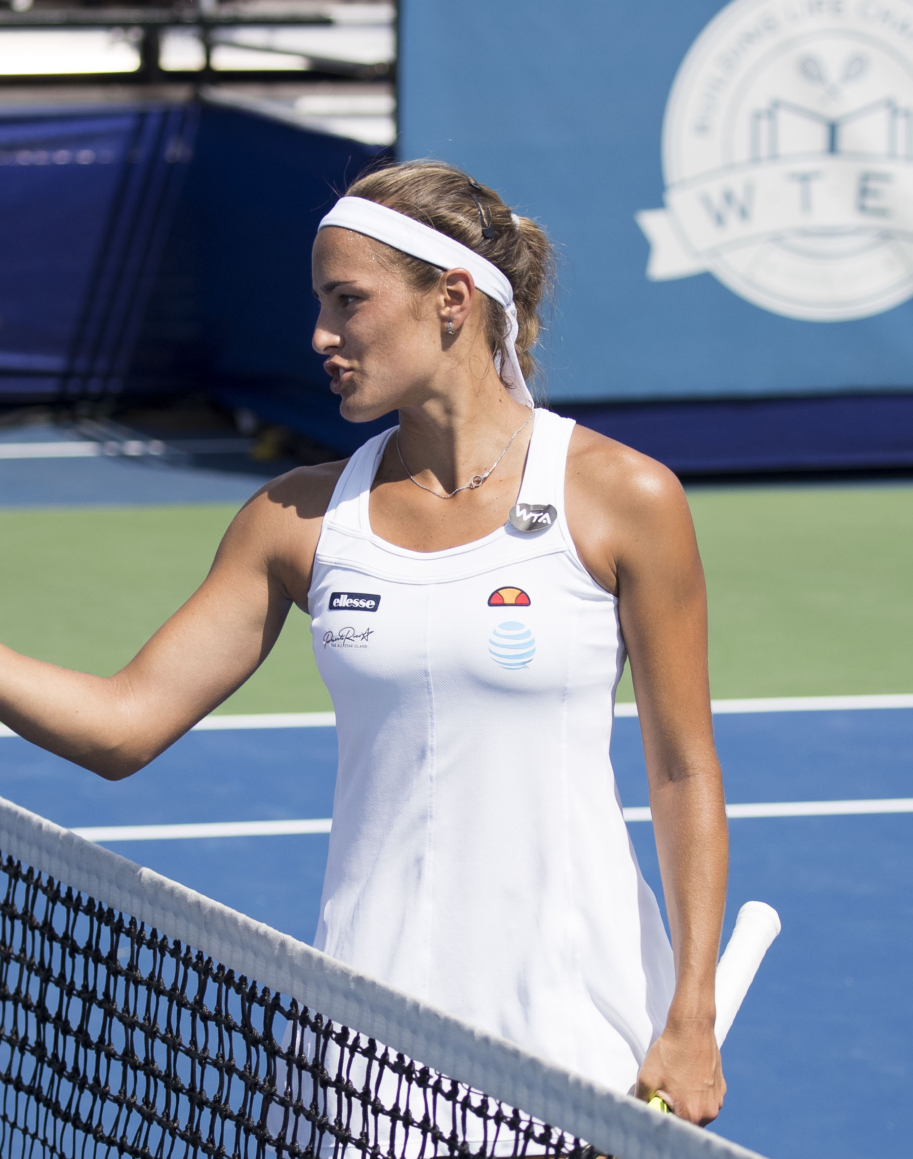 Puig in 2016 at the Citi Open